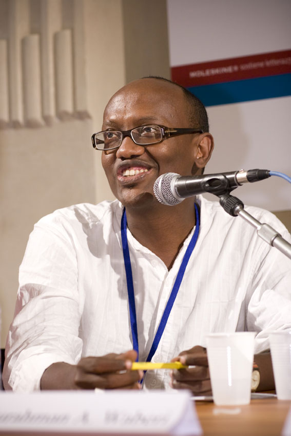 Abdourahman Waberi at festivaletteratura of Mantova at the round table organised by lettera27 in september 2008